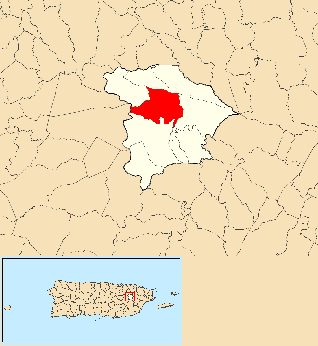 Celada, Gurabo, Puerto Rico locator map